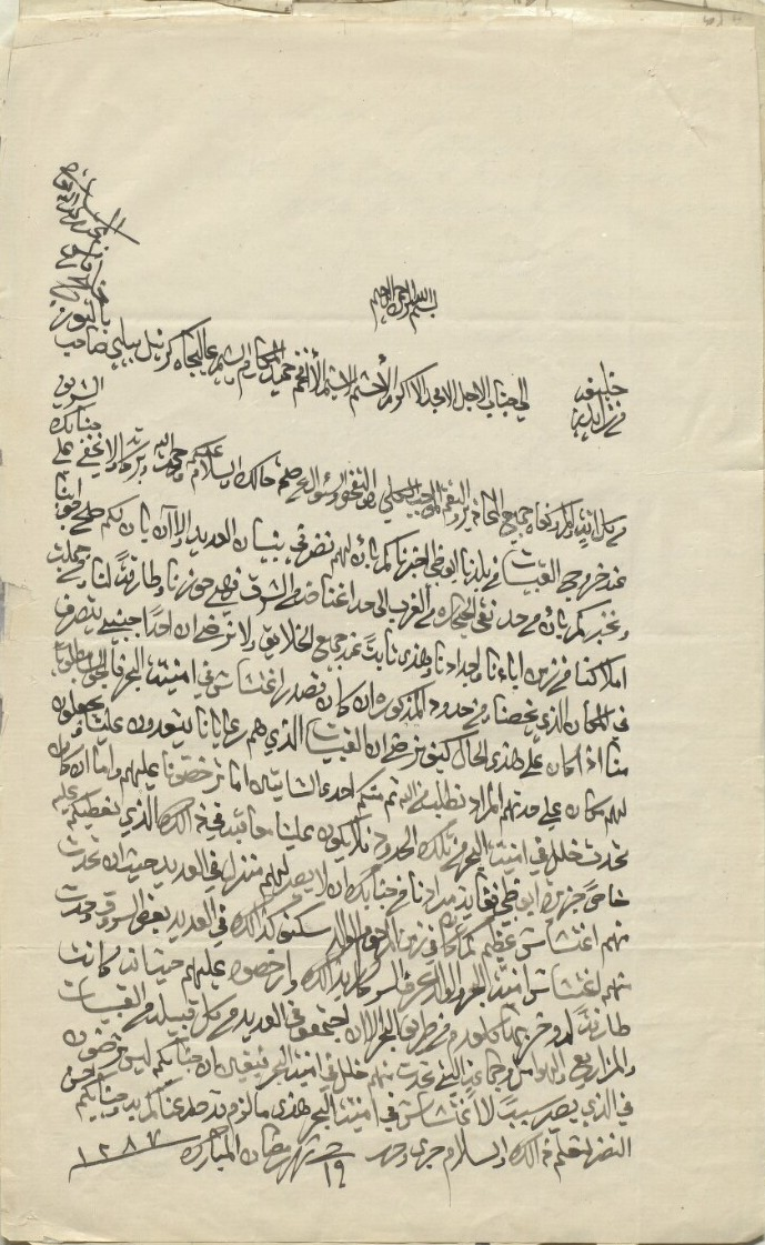 Letter in Arabic from Shaikh Zayid ben Khalifeh [Zayid I bin Khalifa Al Nahyan], Chief of Aboothabee [Abu Dhabi] to Lewis Pelly, dated 19 Ramadhan 1287 (13 December 1870). Regarding the recent departure of the Al Qubaisat tribe from Abu Dhabi and their resettlement of Khawr al Udayd.